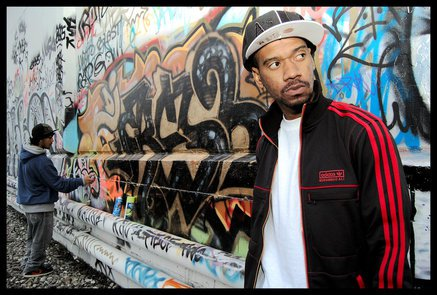 The World's Freshest (DJ Fresh)